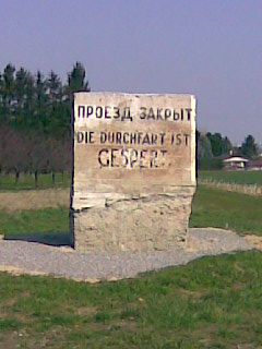 Border stone in Berg